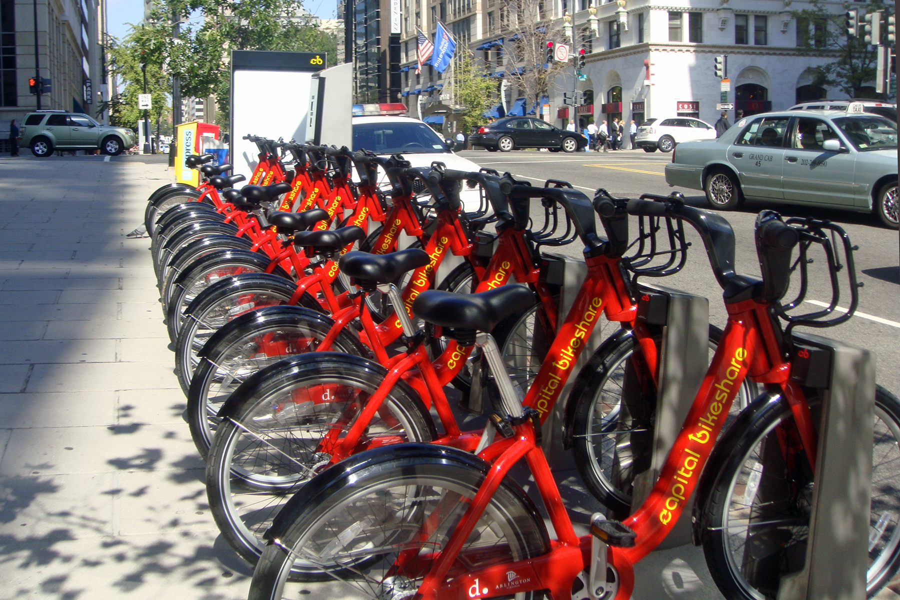 Capital Bikeshare rental station near McPherson Square Metro (WMATA) station, downtown Washington, D.C.